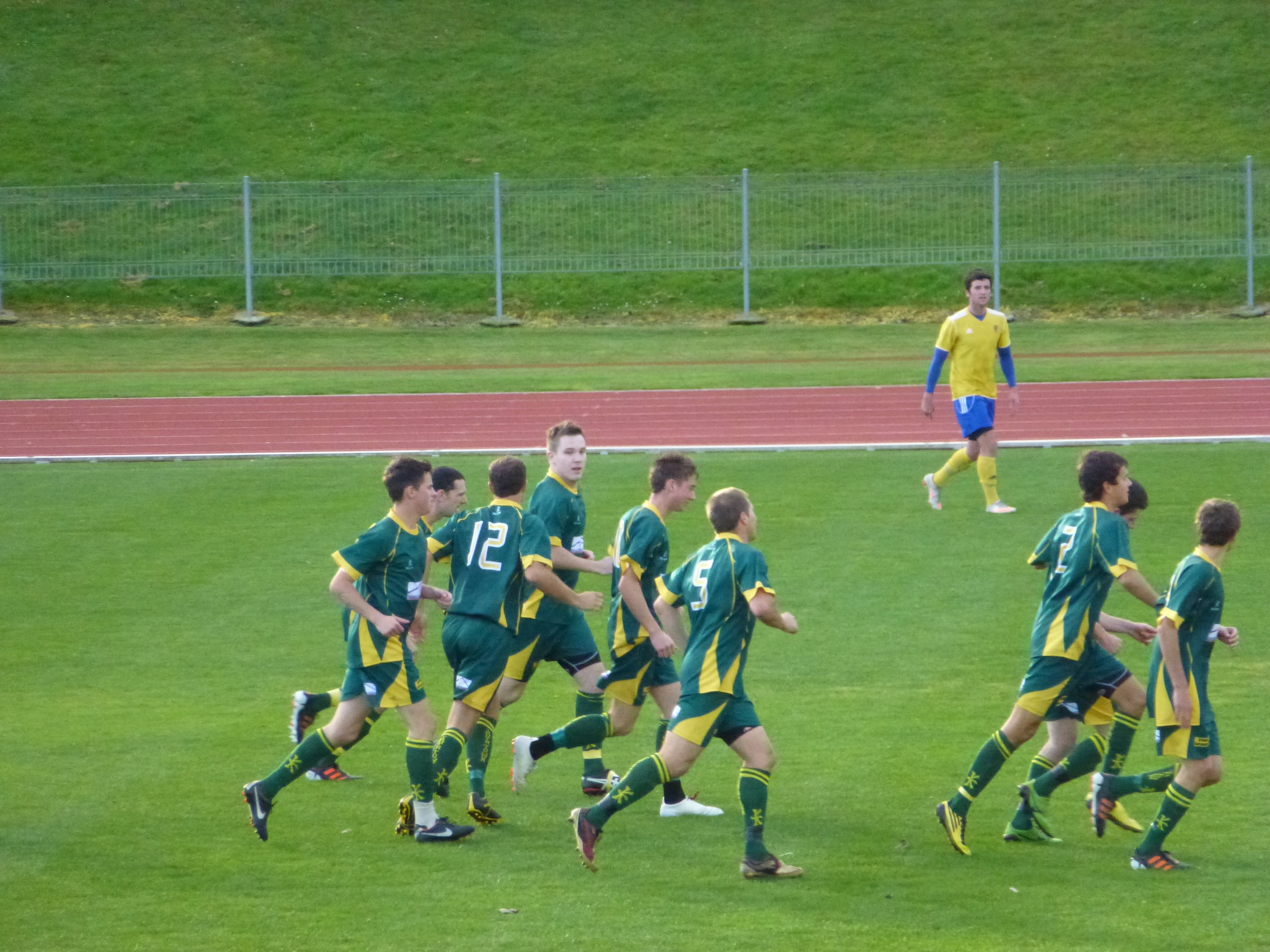 Green Island Players celebrate after a goal during 2012 season at the Caledonian.jpg